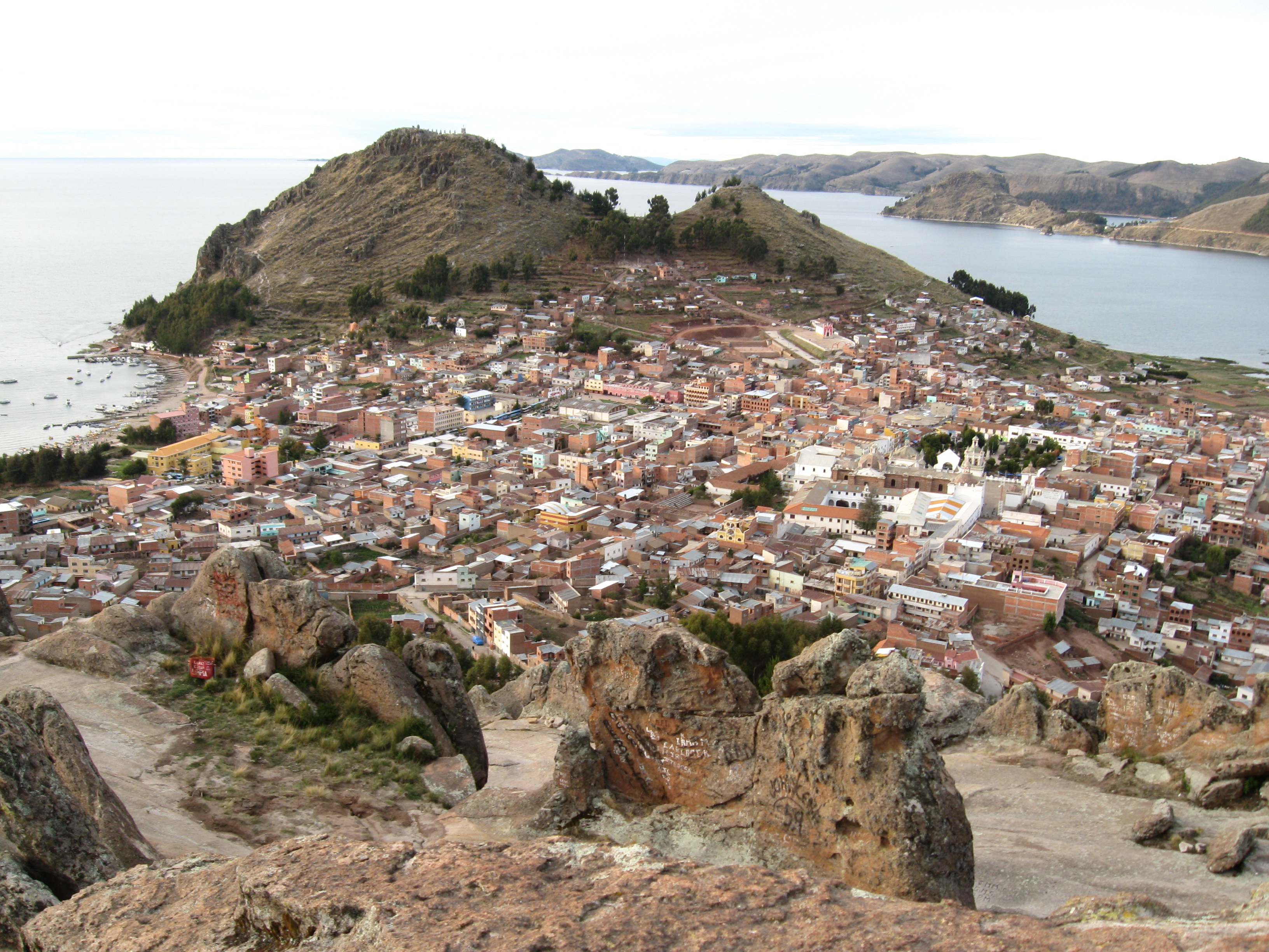 A view of Copacabana, Bolivia from Horca del Inca.